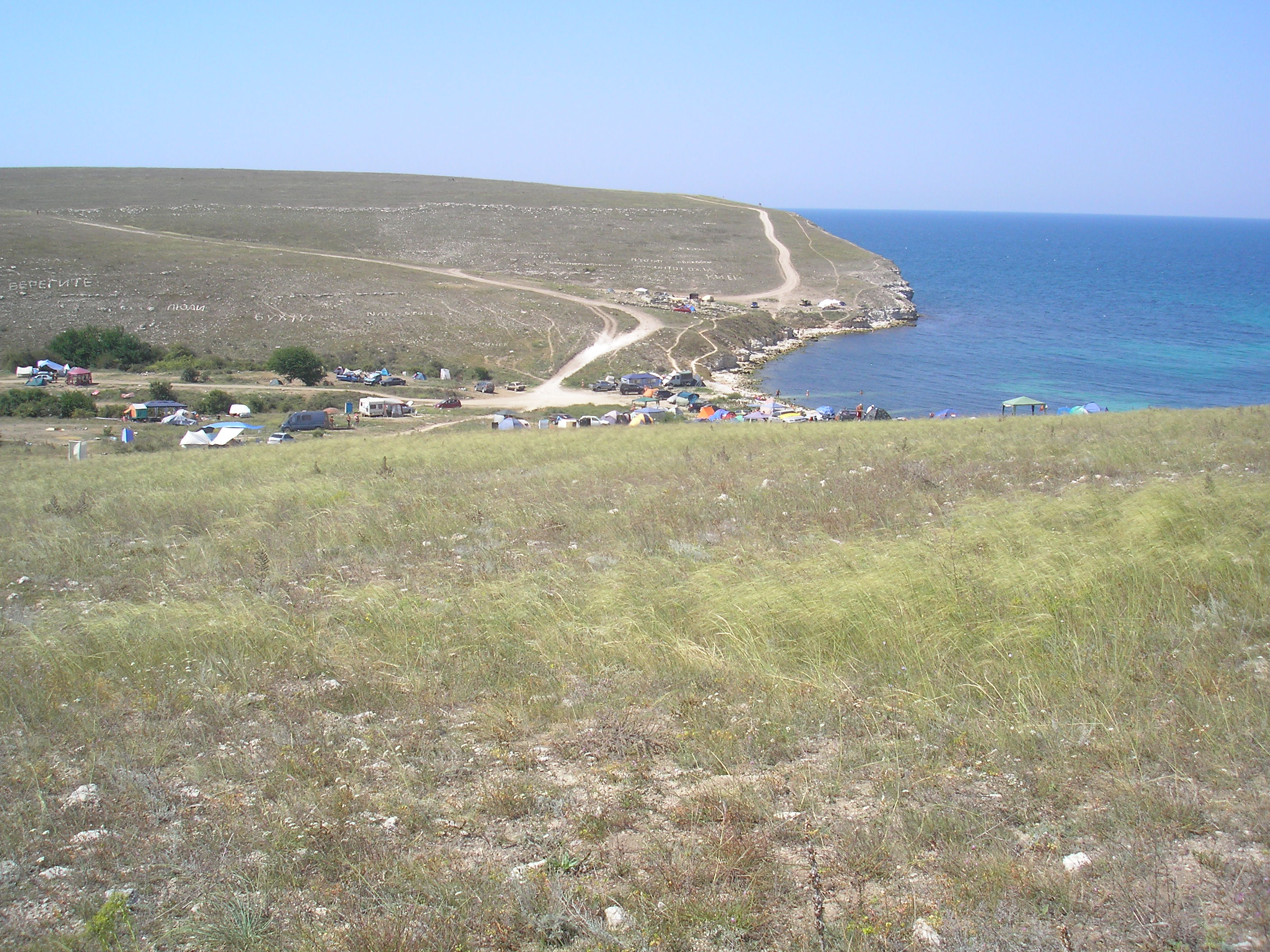 Valley and bay Maliy Kastel, Chornomorske Raion, Crimea